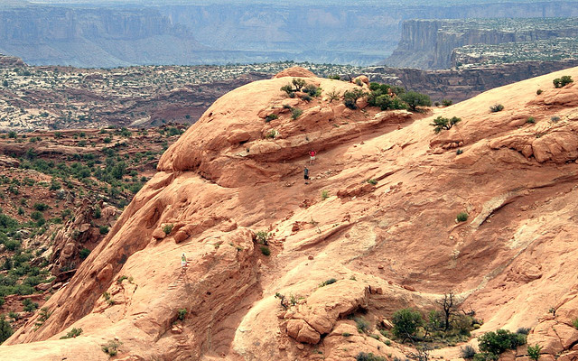 Upheaval Dome, as seen from the Upheaval Dome Trail